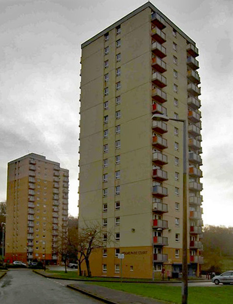 Bishop's Court, Berry Brow The block in the foreground is called Holme Park Court and the development is completely out of character with its environment in the Holme Valley.